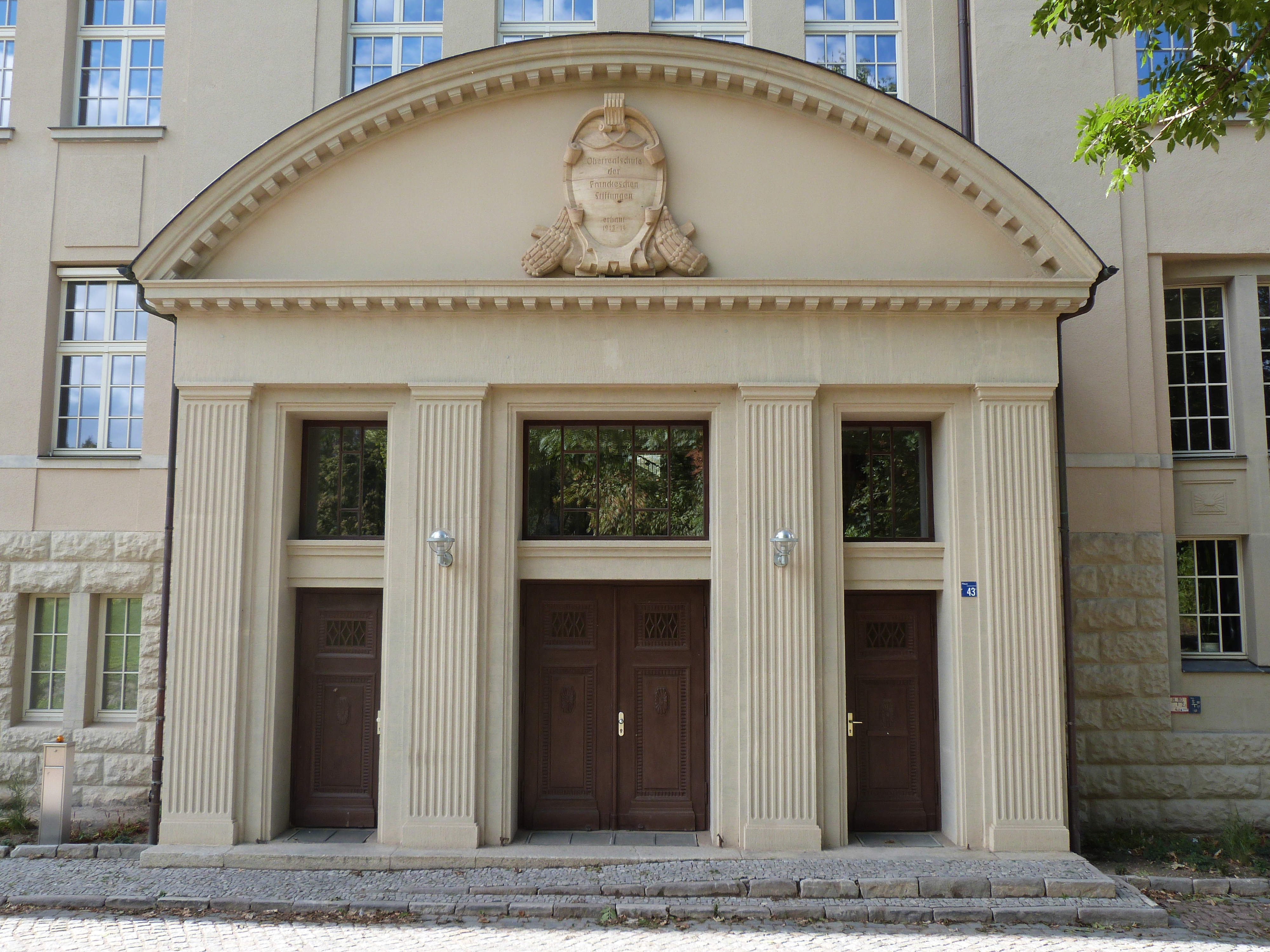 Portal of the Latina August Hermann Francke, Halle (Saale)